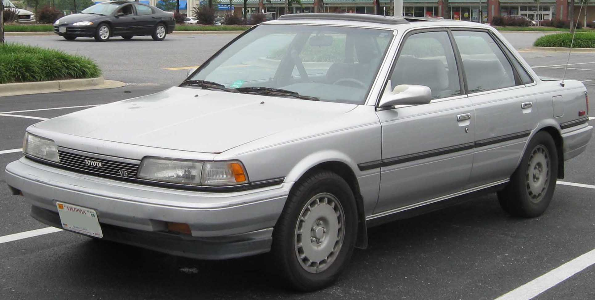 1987-1989 Toyota Camry photographed in Clinton, Maryland, USA.